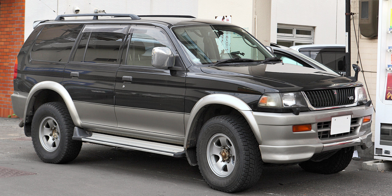 Mitsubishi Challenger 3.0